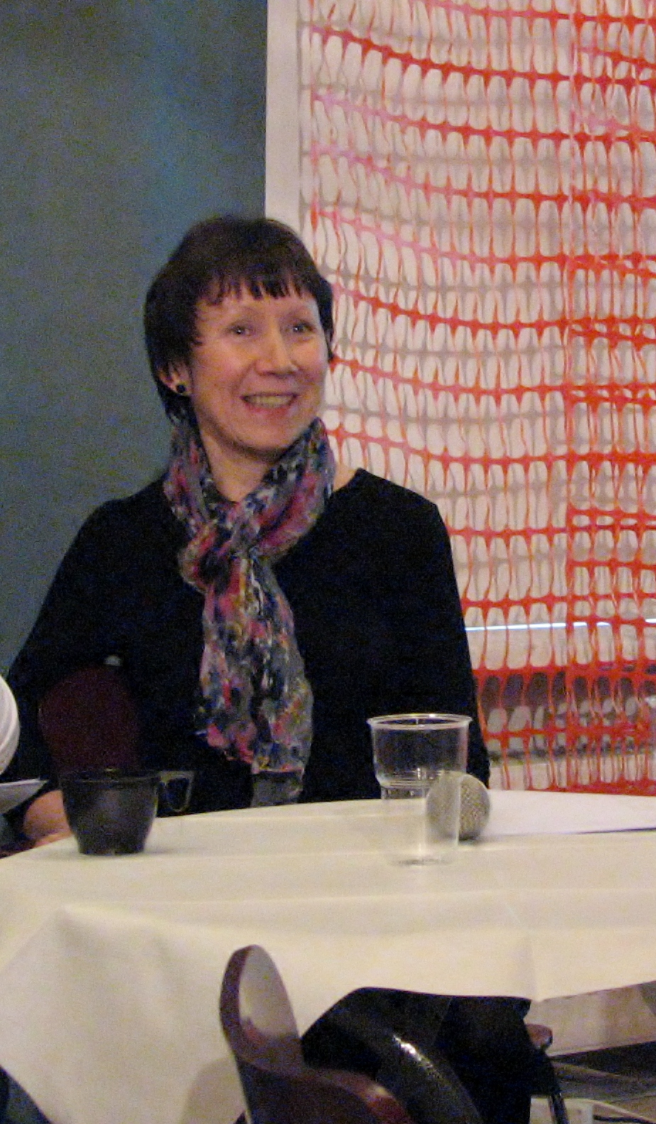 Estonian actress Anu Lamp in HeadRead festival